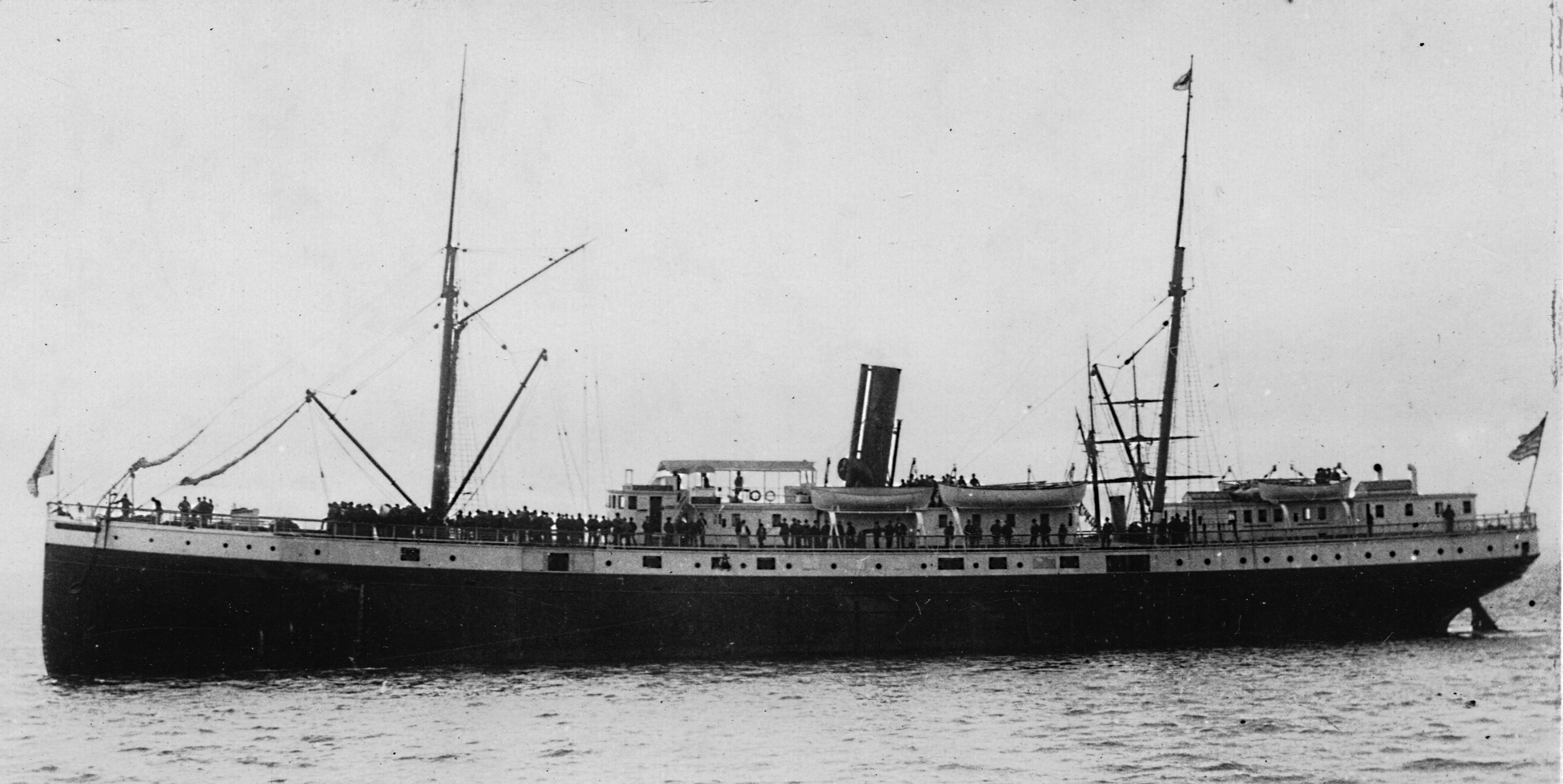 This is a photograph of SS Valencia around 1900, during her service with the Pacific Steam Whaling Company. This ownership would end in 1901 and would be transferred to the Pacific Coast Steamship Company. Five years later, Valencia sank in one of the worst maritime accidents in the Pacific Northwest, killing over 130 people.